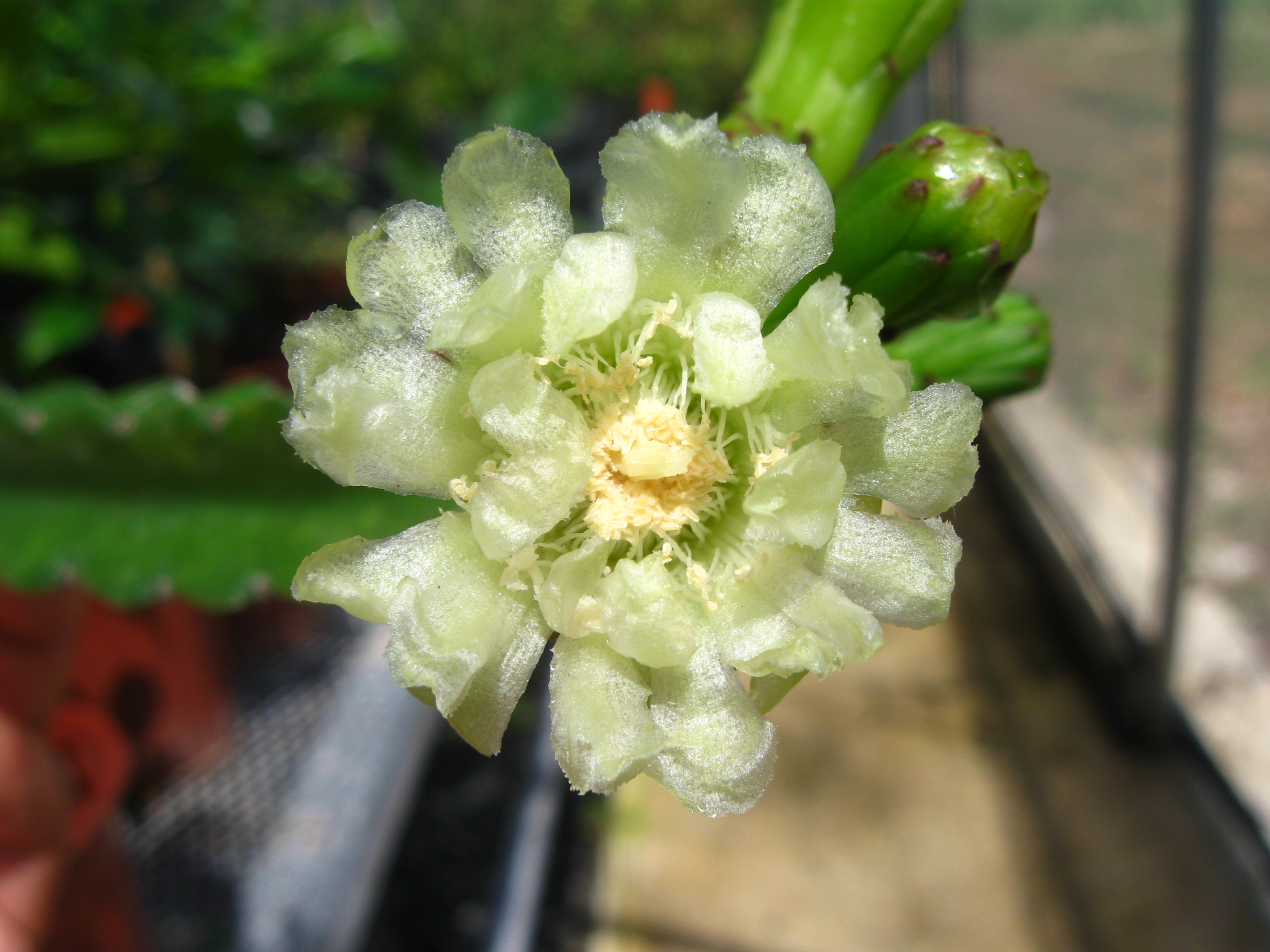 Leptocereus grantianus flower Photo by Omar Monsegur